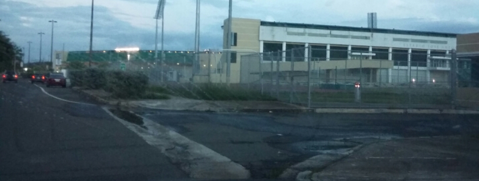 Stadium Complex Mayaguez 2010. Baseball stadium and Athletism stadium with warming track